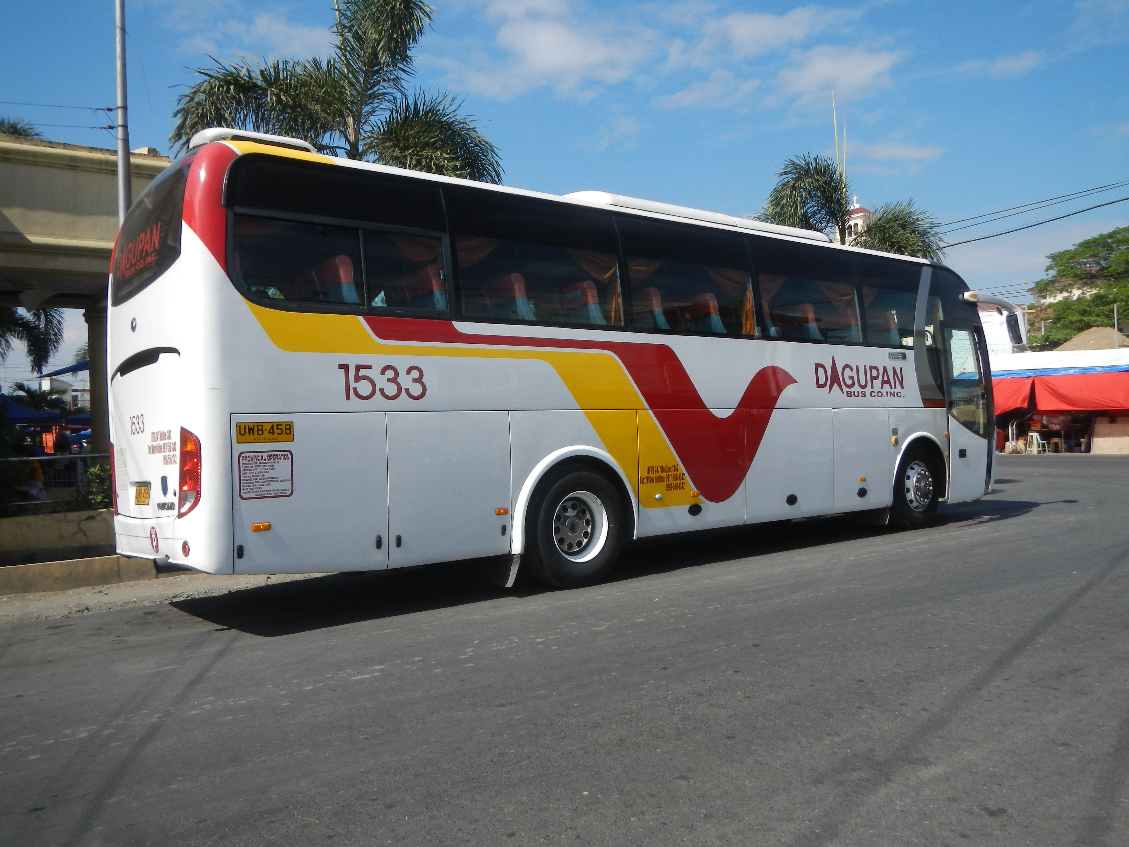 Town Hall complex in Town Proper (in List of barangays in Pangasinan, Barangays of Pangasinan, April 13, 2016 is the Fiesta, Barangay Poblacion, beside Barangay Pugaro, Manaoag, Pangasinan, Pangasinan Province along the Poblacion-Pugaro, Manaoag, Pangasinan Farm to Market Road along the Manaoag-Urdaneta, Pangasinan Provincial Road interconnecting with and from MacArthur Highway (Binalonan, Pangasinan section) and MacArthur Highway (Urdaneta, Pangasinan section) of MacArthur Highway or Manila North Road gateway to Tarlac–Pangasinan–La Union Expressway (TIPLex, Carmen, Rosales-Urdaneta, Pangasinan section) of Tarlac–Pangasinan–La Union Expressway).